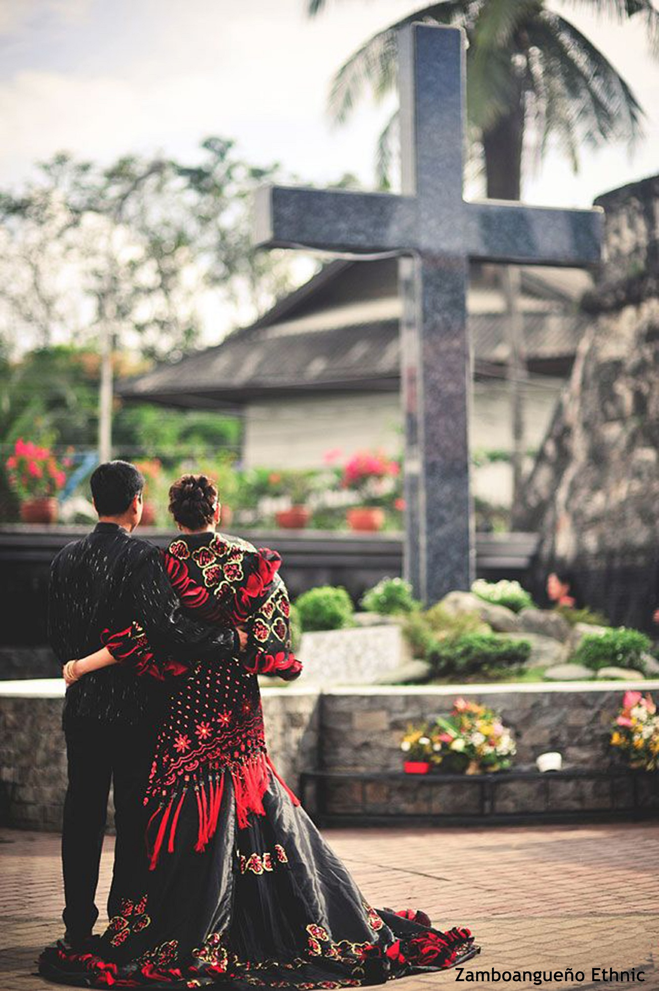 Ethnic